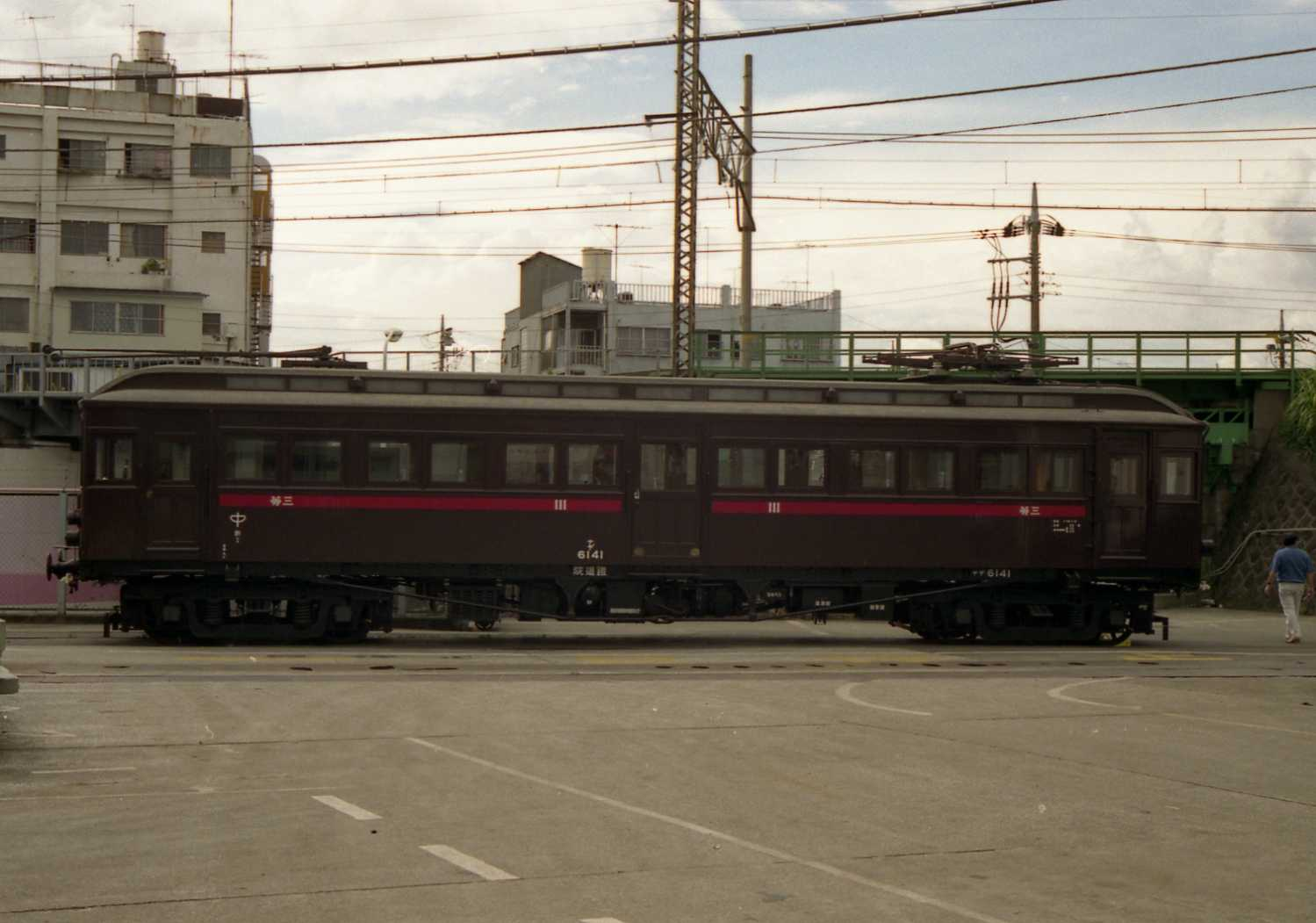 JGR Nade6141 EC. This photo was taken in JRE Oi-factory.